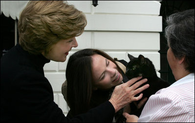 Text from site: "Miss Barbara Bush and Mrs. Laura Bush say goodbye to India, the First Kitty, as they prepared to depart the White House in November 2008 en route to Panama. The 18-year-old American Shorthair died peacefully at home Sunday, January 4, 2009. White House photo by Joyce N. Boghosian"